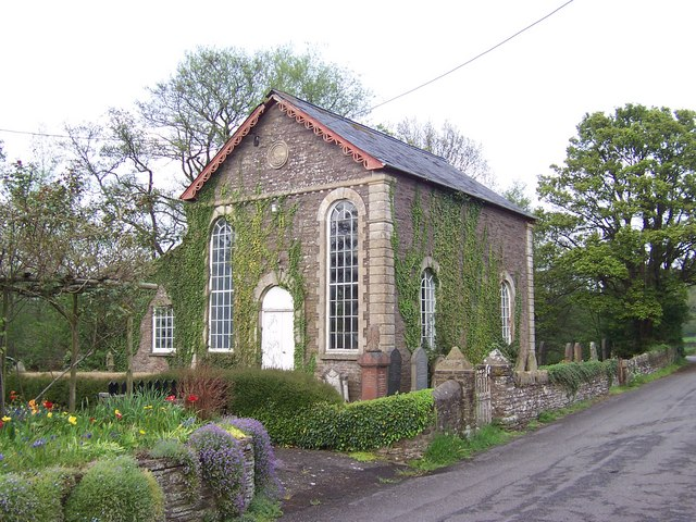 Calvinist Chapel, Pandy. Rather run down place of worship just off the A465 Abergavenny/Hereford Road